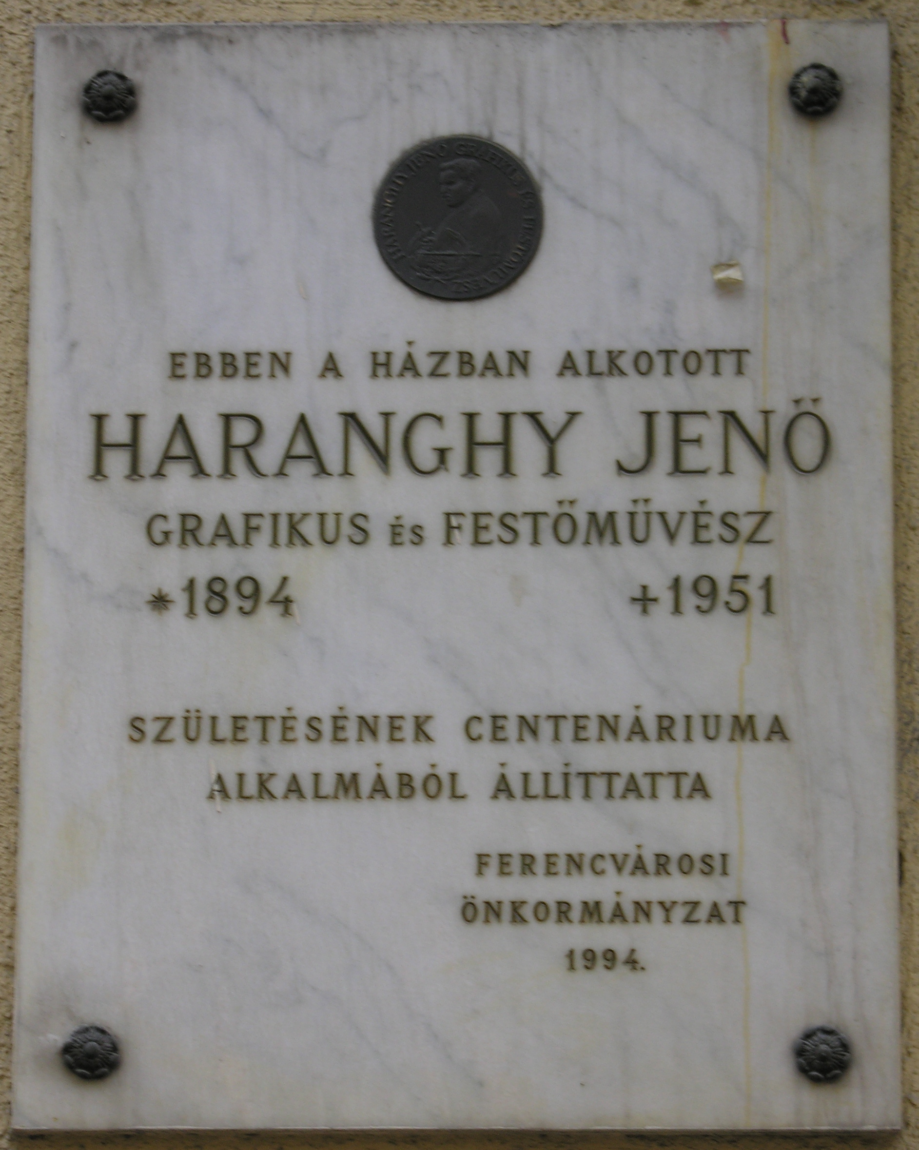 Commemorative plaque of Jenő Haranghy in Budapest District IX, Ráday Street No 63